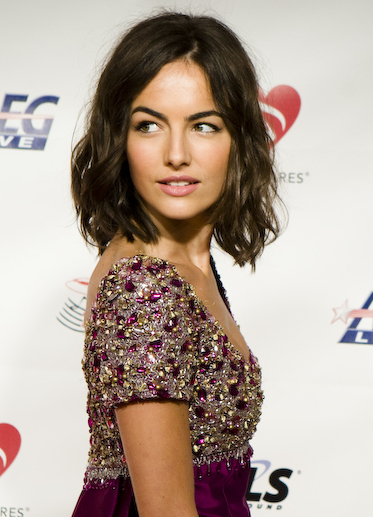 Camilla Belle at the Grammy Auction in (February 2009).